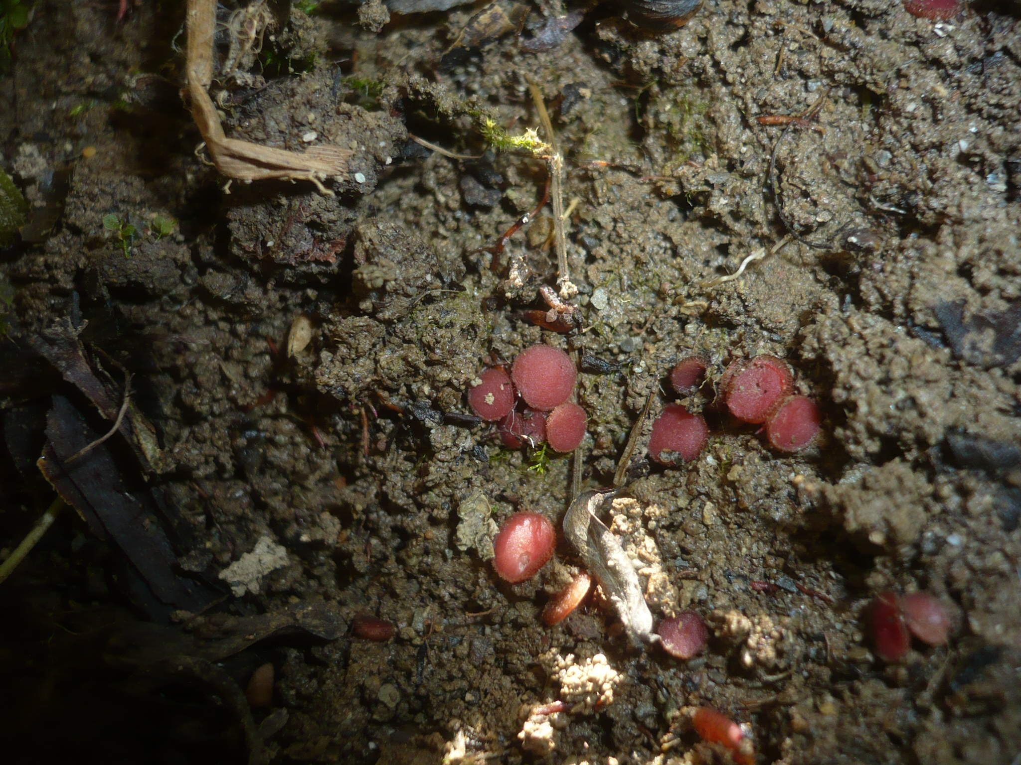 Parascutellinia violacea (Velen.) Svrcek Image location: Tusilacki potok, Bobovica, Bosnia and Herzegovina deposited in WU Recognized by sight: same place For more information about this, see the observation page at Mushroom Observer.